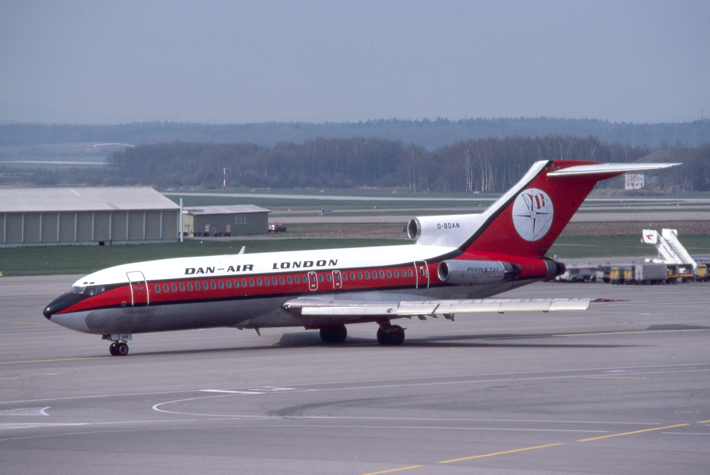 Written off 1980. Crashed on approach.